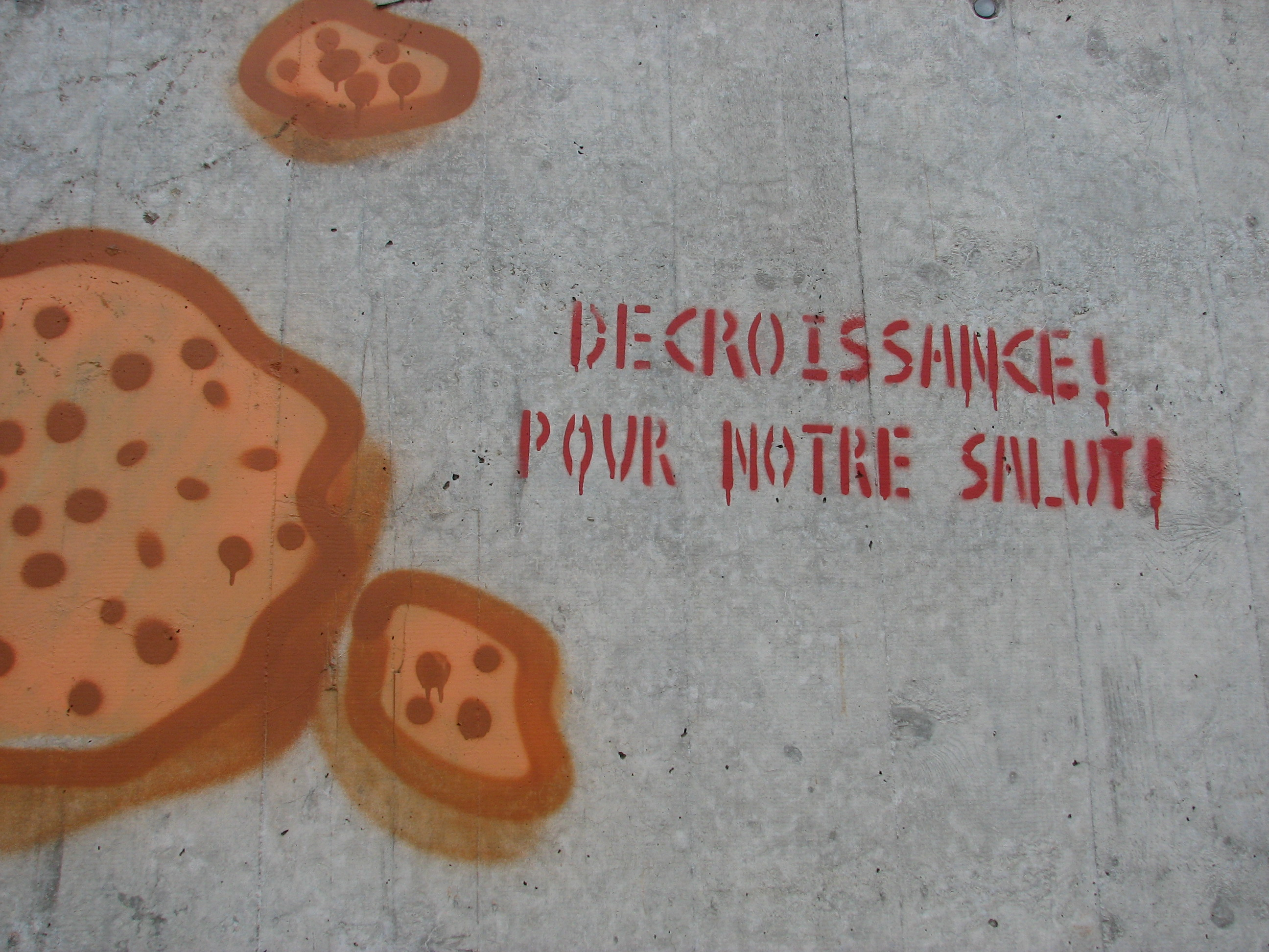 Degrowt graffiti on a wall in Neuchâtel.